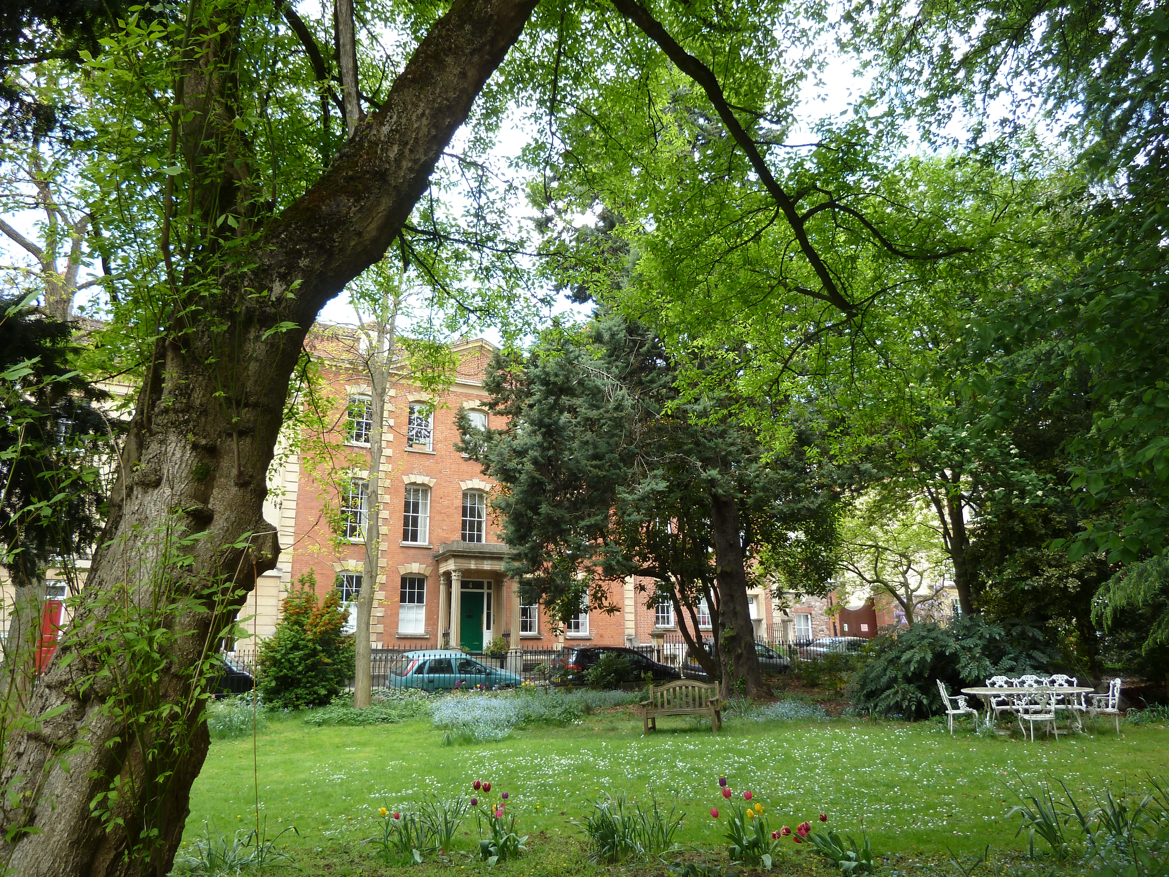 4 Dowry Square across the square gardens, Bristol